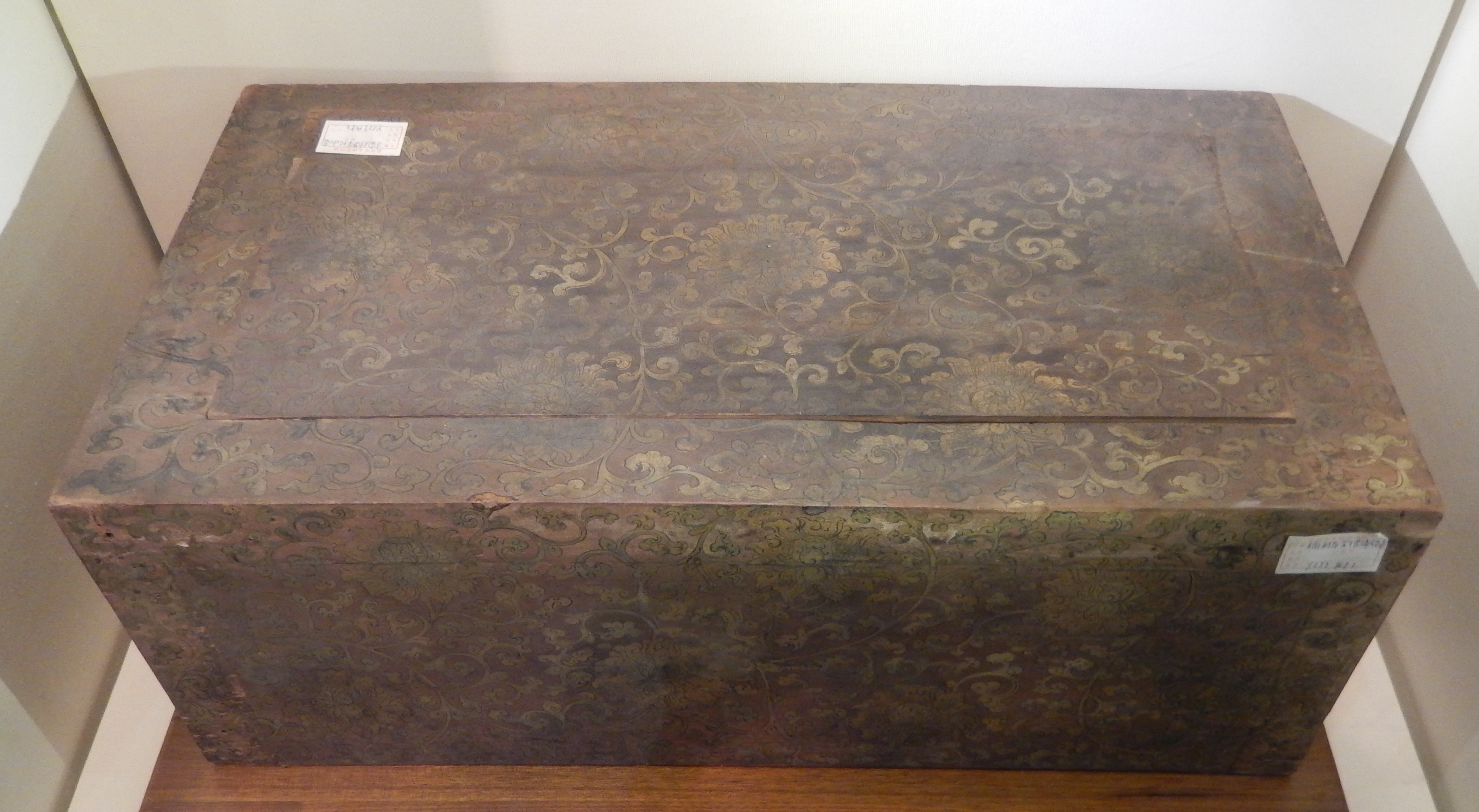 Buddhist scripture box made of Nanmu wood. Found in the white pagoda of Miaoying Temple during renovations in autumn 1978. Originally contained a gilt bronze relic box and a gold Buddha of Longevity statuette, the Chinese text of the Heart Sutra handwritten by the Qianlong Emperor, a Tibetan Byddhist text handwritten by the Qianlong Emperor, 4 gilt silver vases, 5 hada scarves, 5 bolts of brocade cloth, a set of 108 rosary beads, and a lot of incense. Qing dynasty (1644–1911). Held at the Capital Museum, Beijing.中文（中国大陆）: 楠木描金銀佛經函。清乾隆十八年（1753年）。1978年秋，修繕妙應寺的白塔時在塔剎的寶頂內所發現。首都博物館藏。